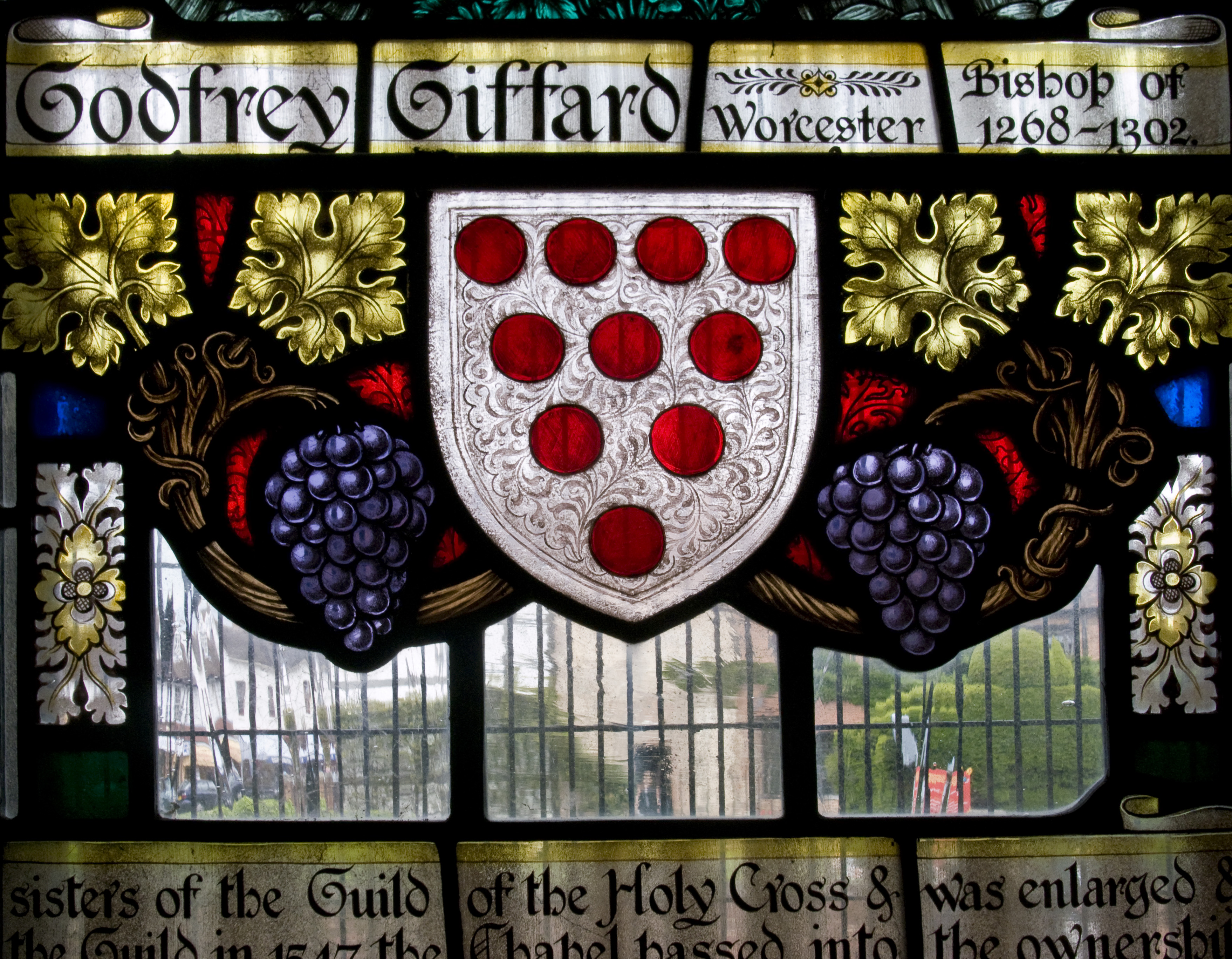 Detail of a stained glass window in the Chapel of the Guild of the Holy Cross, Chapel Lane, Stratford-upon-Avon, Warwickshire. The window commemorates Godfrey Giffard, Bishop of Worcester and the shield is that of the Anglican Diocese of Worcester.